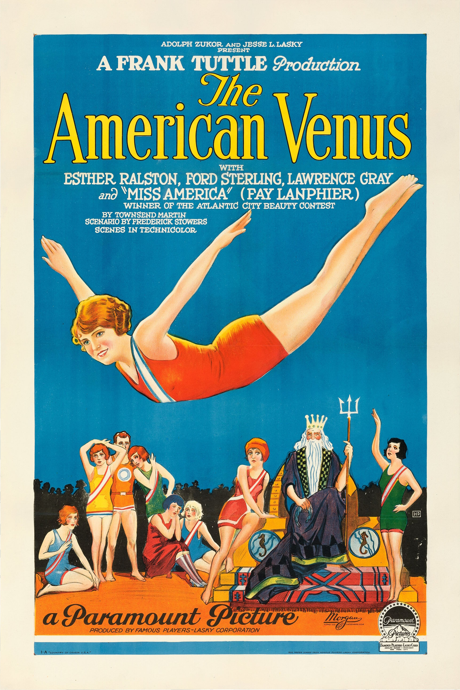 This is a poster for the 1926 film The American Venus.